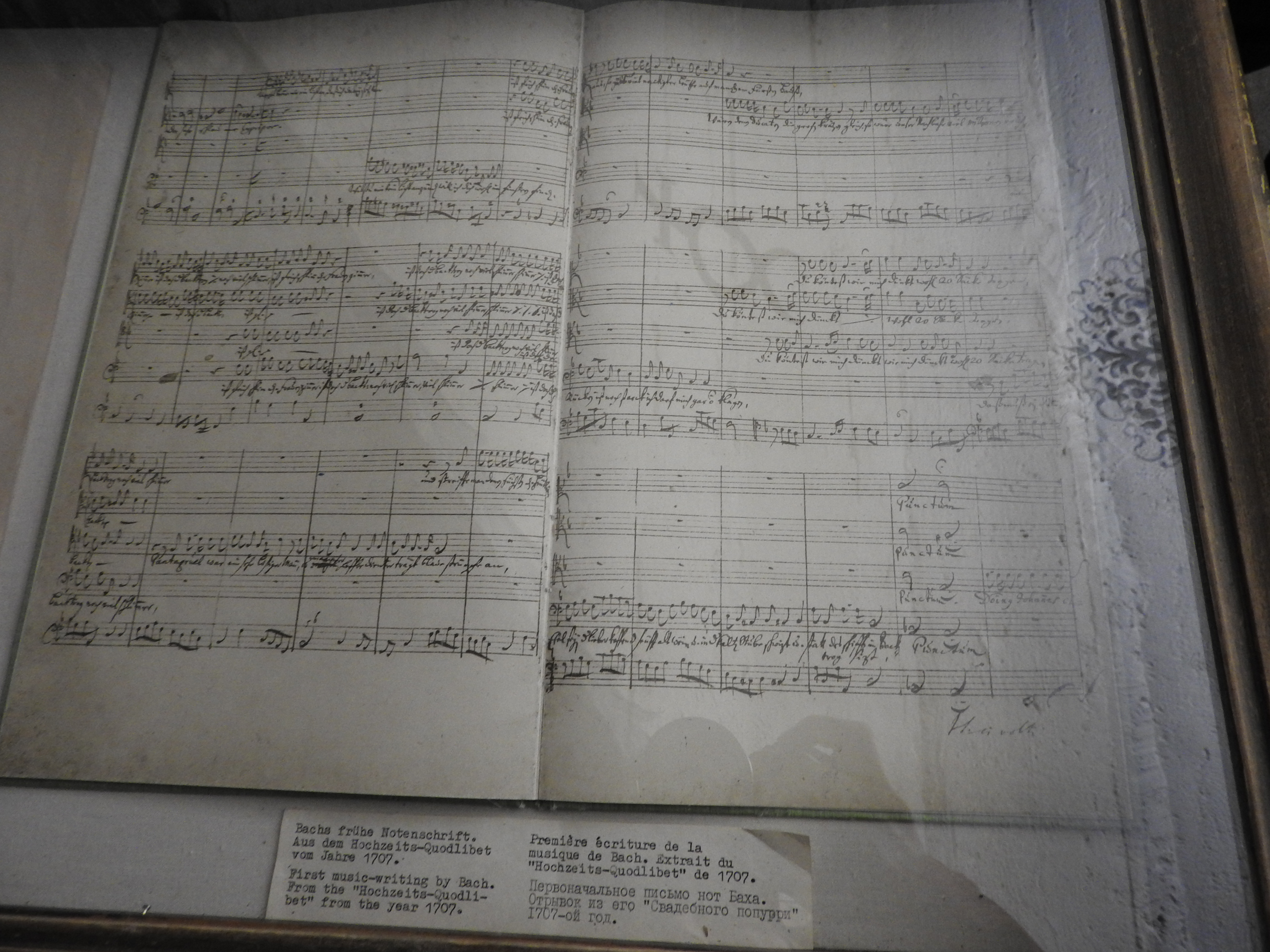 Handwriting of J. S. B. in the archive in the town hall of Mühlhausen, Thuringia, Germany